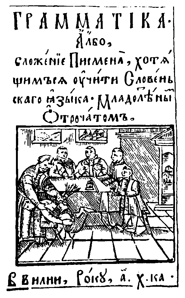 Grammatica printed in Mamonich printing house, Vilna